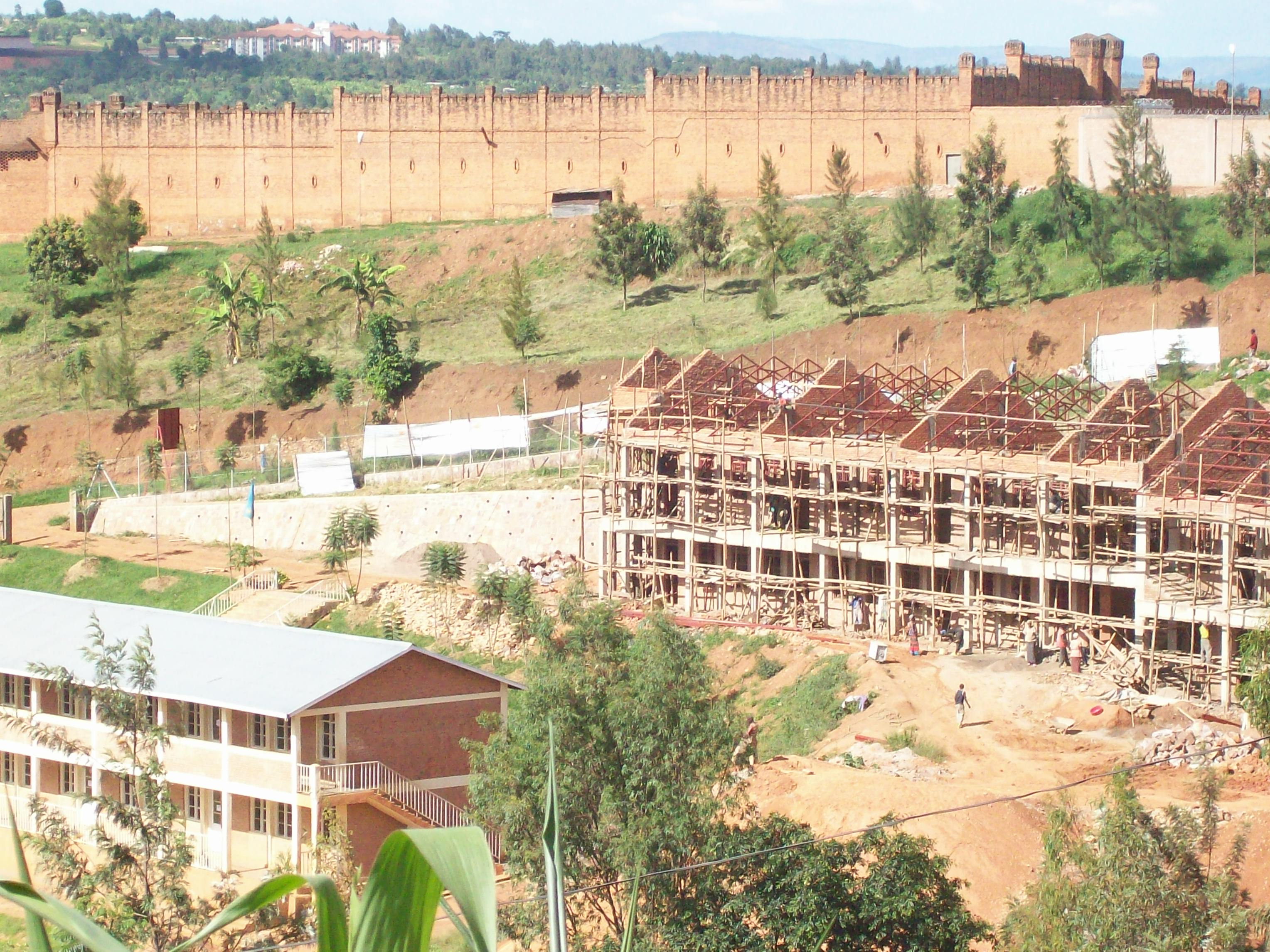 city-prison of Kigali, Rwanda (build 1918)